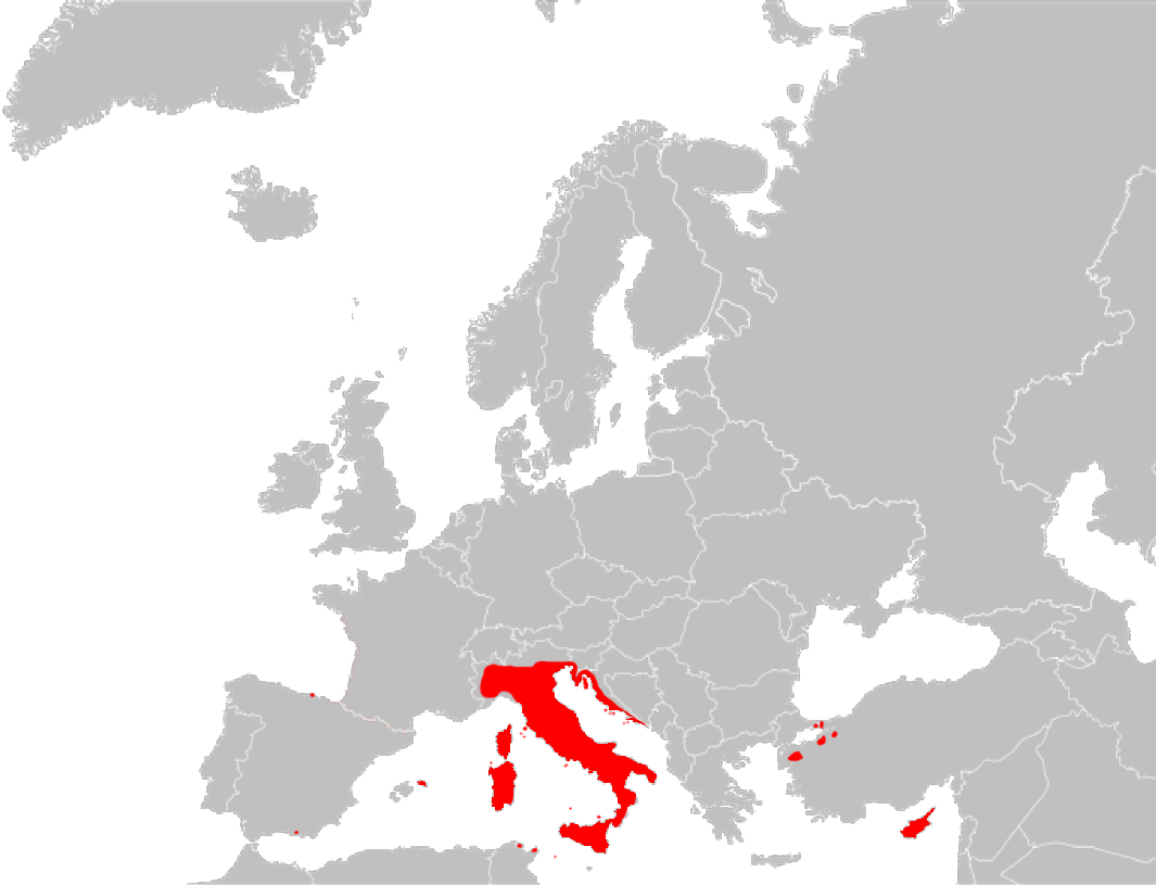 Podarcis siculus range map.